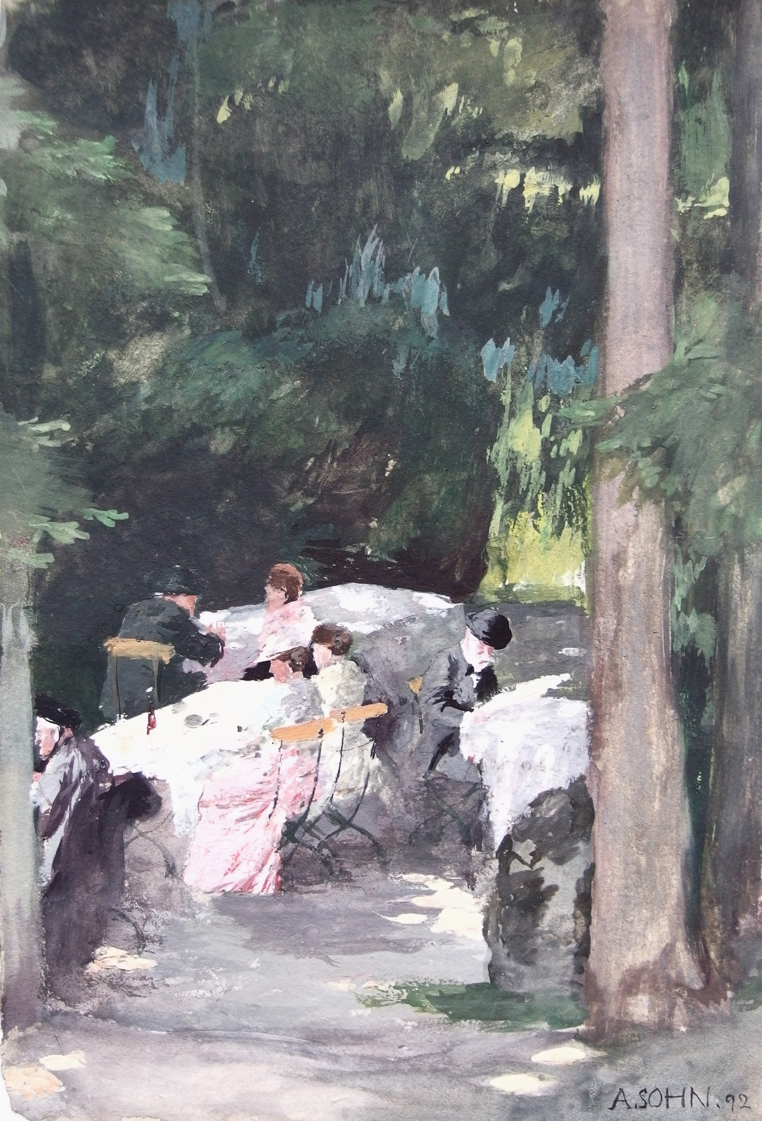 Alfred Sohn-Rethel, Gouache 23 x 16 cm, Jacobi-garden in the back of Malkasten house in Düsseldorf, summer 1892